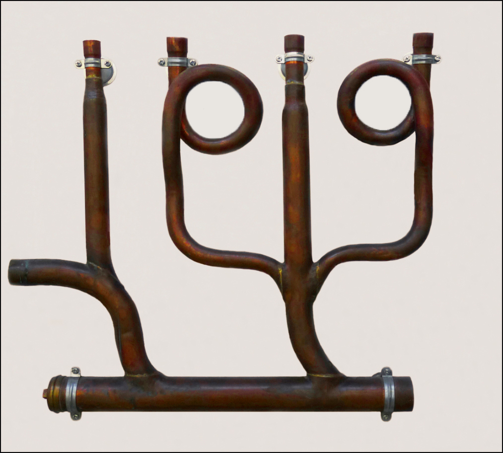 Copper work in the old way.